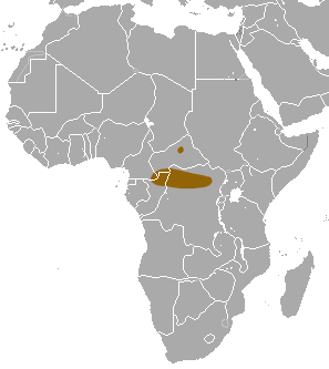 Ludia's Shrew (Crocidura ludia) range